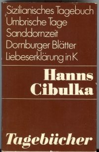 Book cover of Hanns Cibulka "Tagebücher" 1976